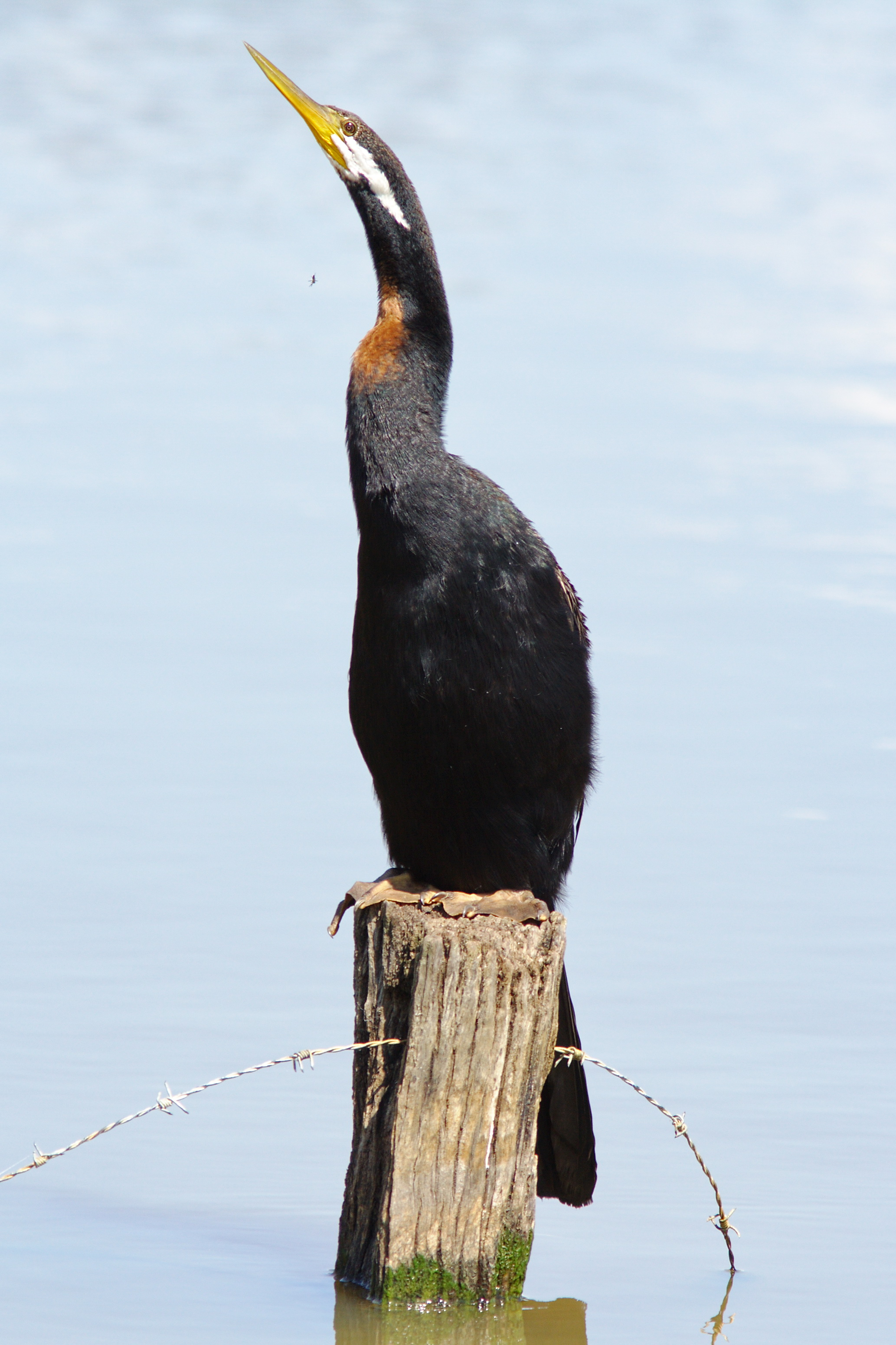 Australian Darter, Anhinga novaehollandiae; wild bird